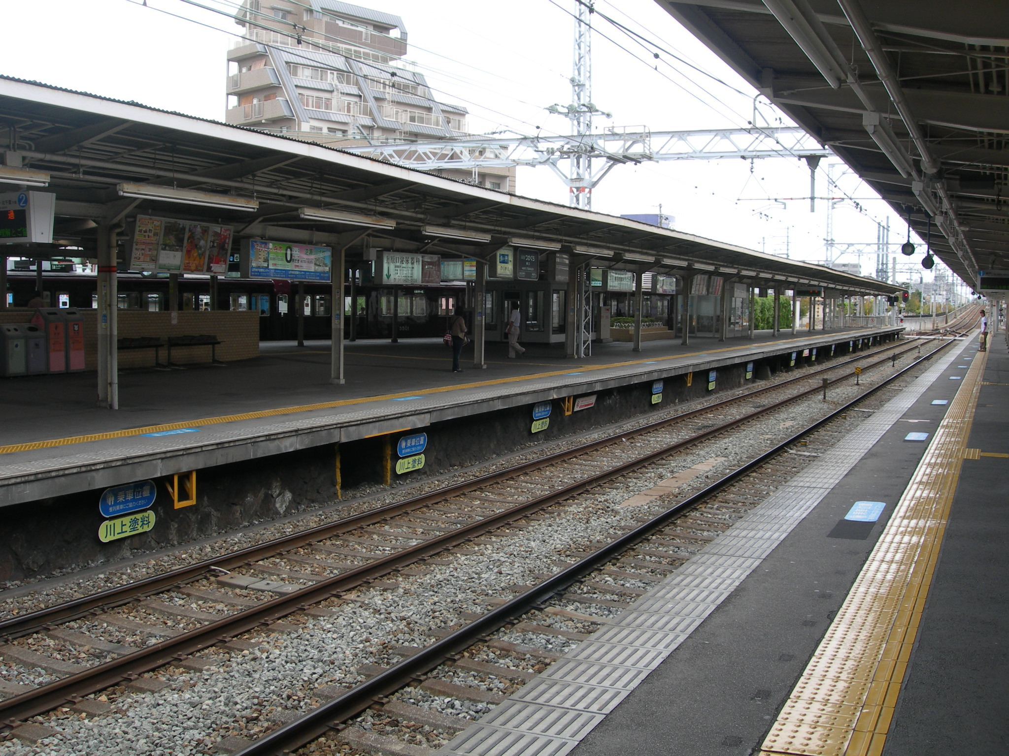 Railway platform from Tsukaguchi Station (Hankyu).